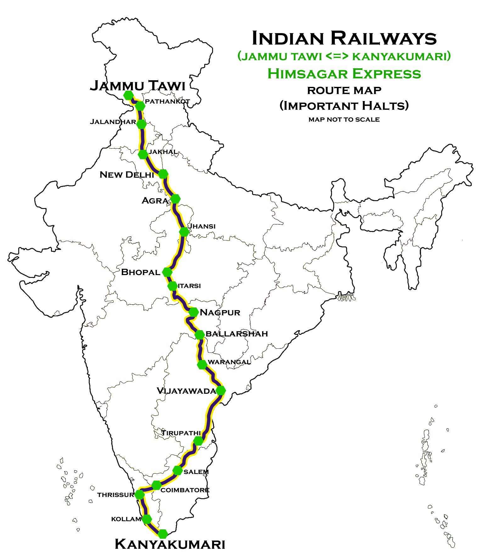 Himsagar Express (Jammu Tawi - Kanyakumari) Route map